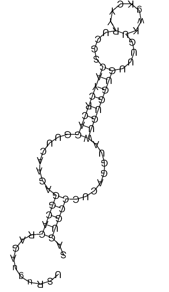 RNA secondary structure of TB6Cs1H1 generated by the WAR server( It is the consensus structure from several Trypansomatid species -Trypanosoma brucei, Trypanosoma brucei gambiense, Trypanosoma cruzi, Trypanosoma congolense